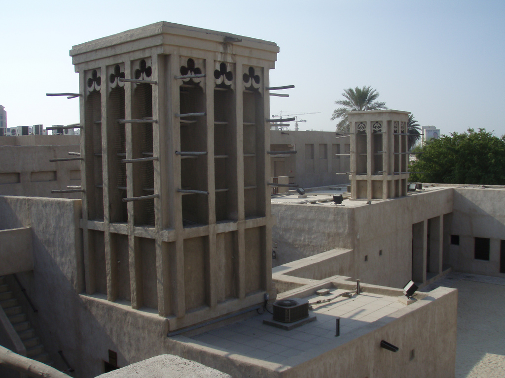 Sheikh Saeed Al Maktoum's historic home in Dubai